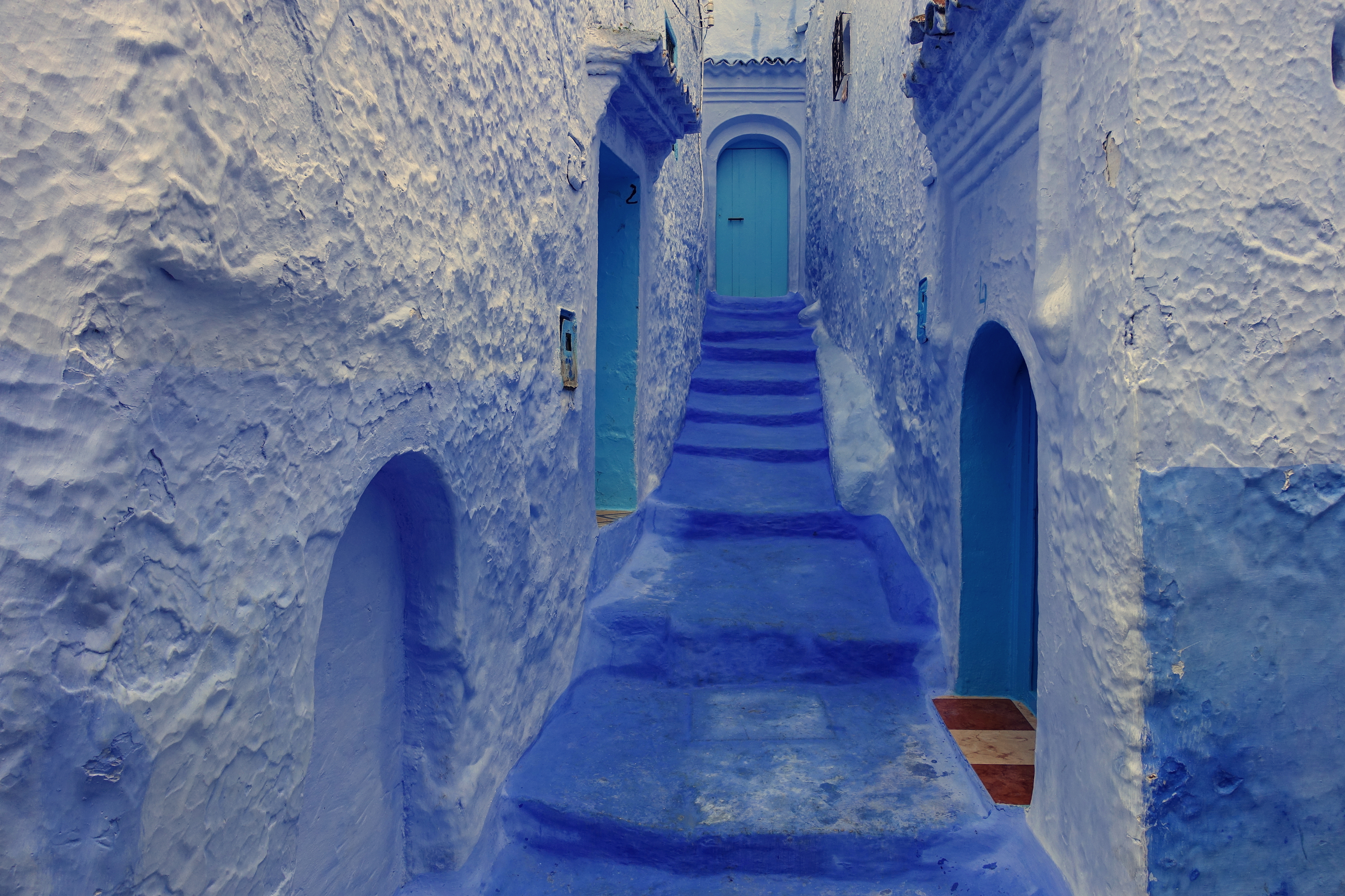 Street and typical houses in Chefchaouen, the blue city of Morocco.